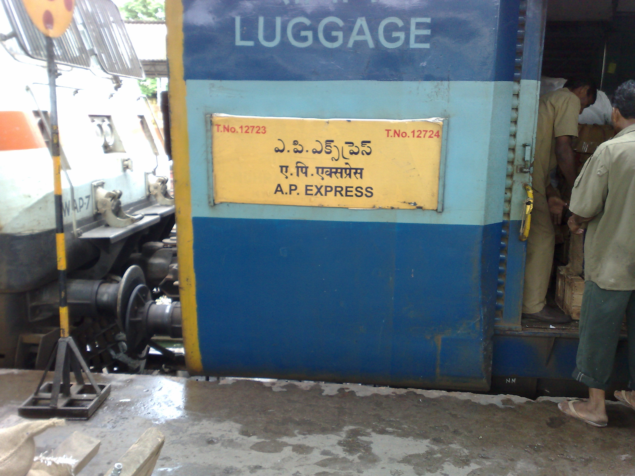 12724 Andhra Pradesh Express Trainboard